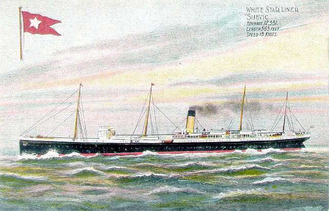 White Star liner Suevic wrecked at the Lizard